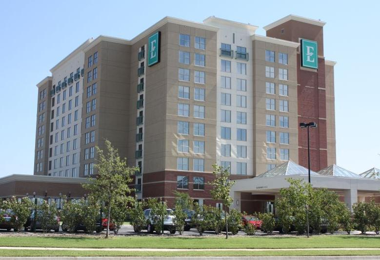 Embassy Suites Hotel in Norman, OK.